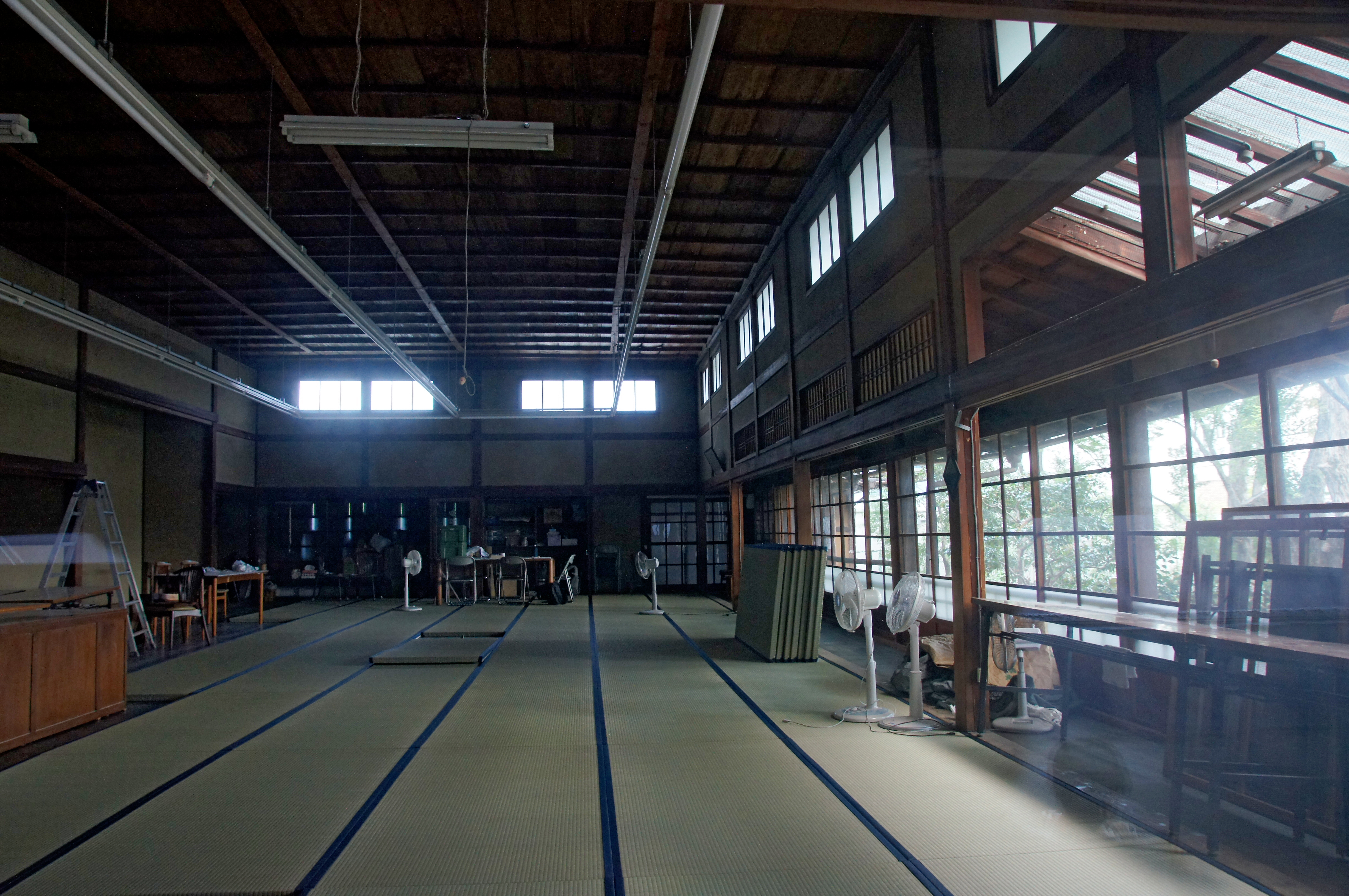 Oukoku Bunko in Kyoto, Kyoto prefecture, Japan.